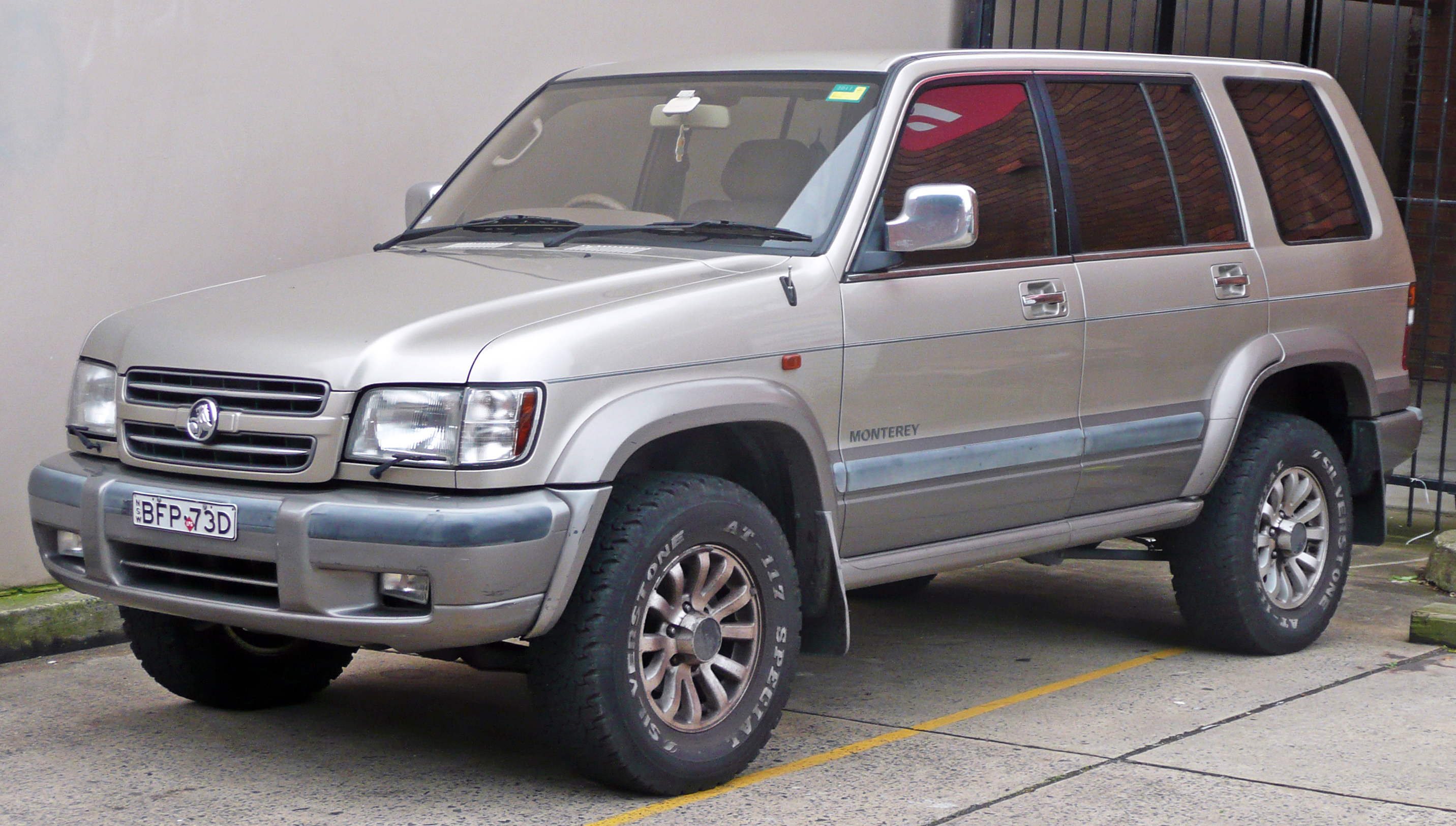 2001–2003 Holden Monterey (UBS) wagon. Photographed in Caringbah, New South Wales, Australia.